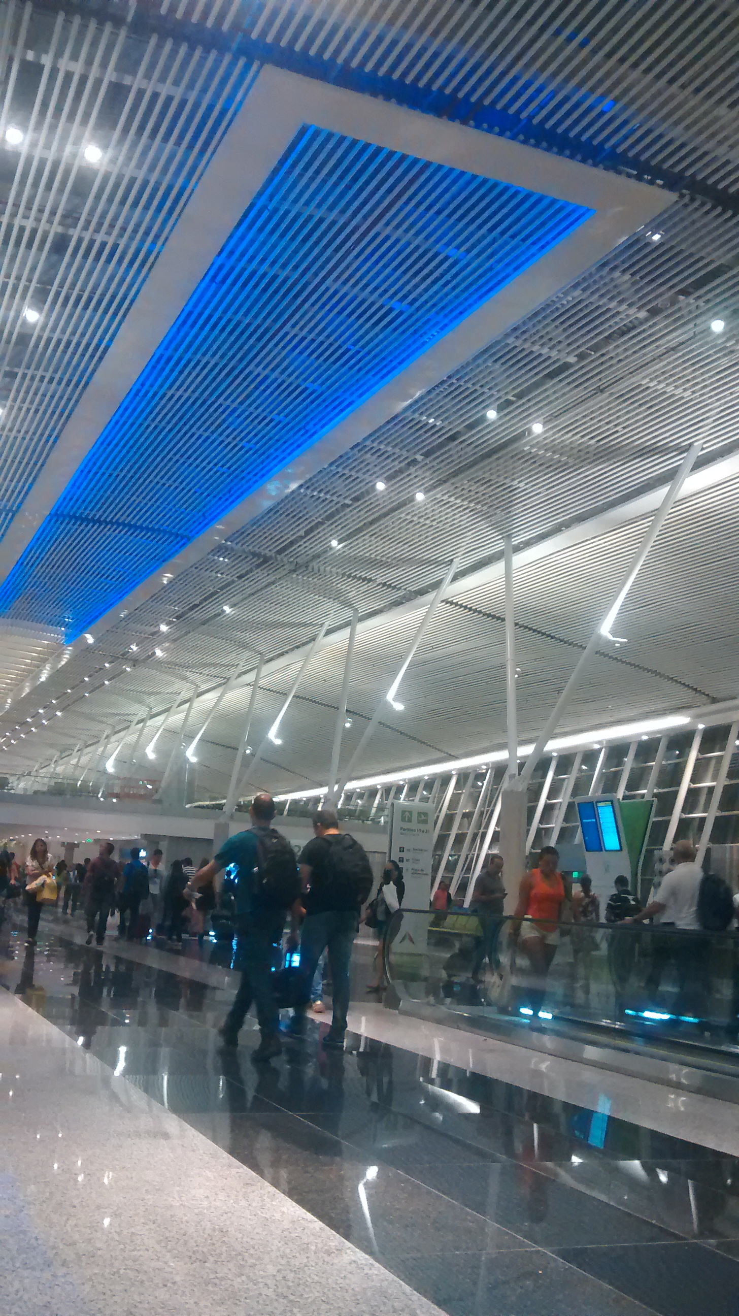 Neon lights lit in the evening inside South Concourse.